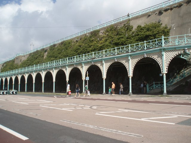 Arches on Brighton Seafront Located on the Lower Esplanade between the Brighton Pier and the Marina